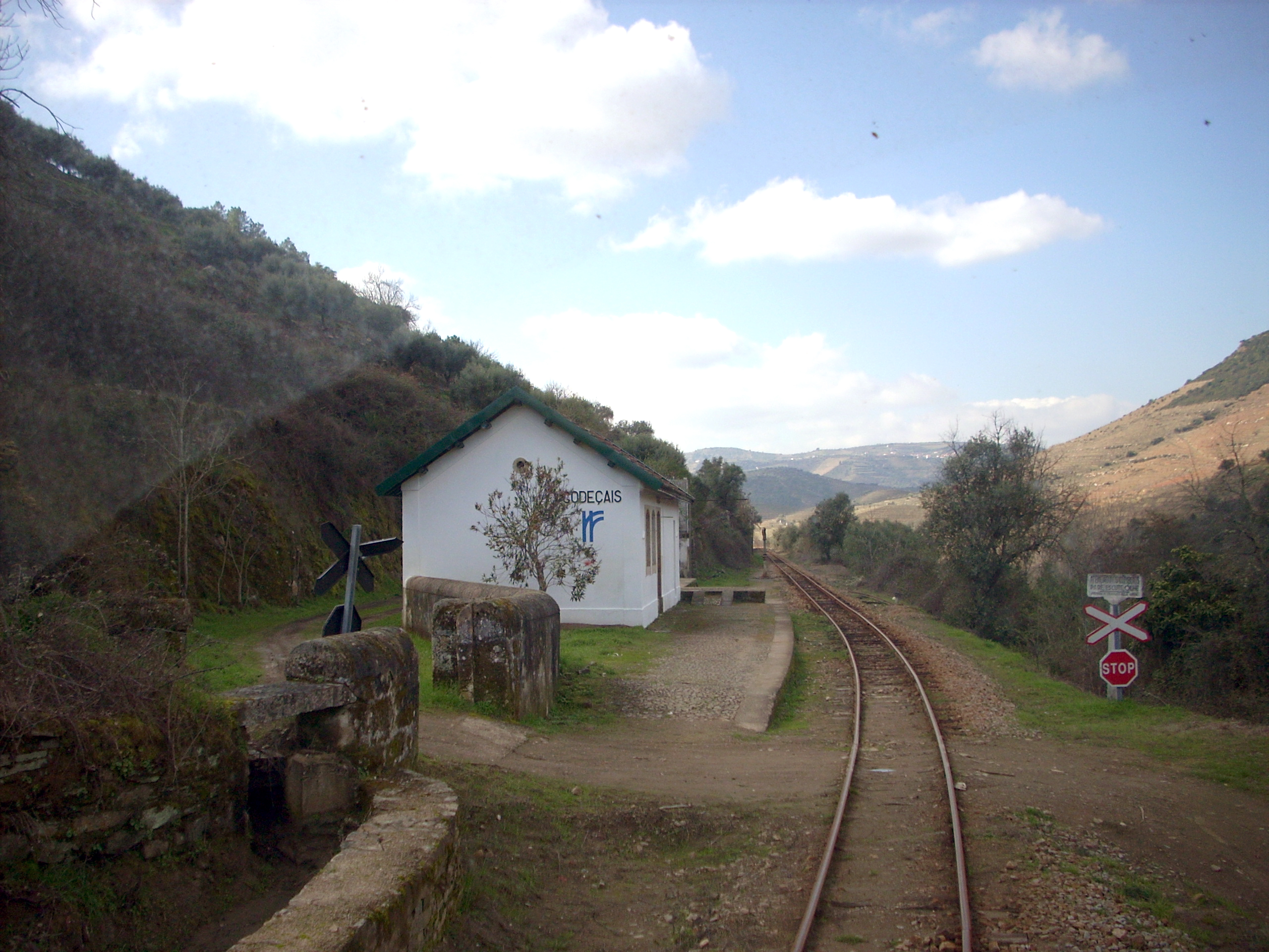 Codeçais train station at Linha do Tua railway, Portugal